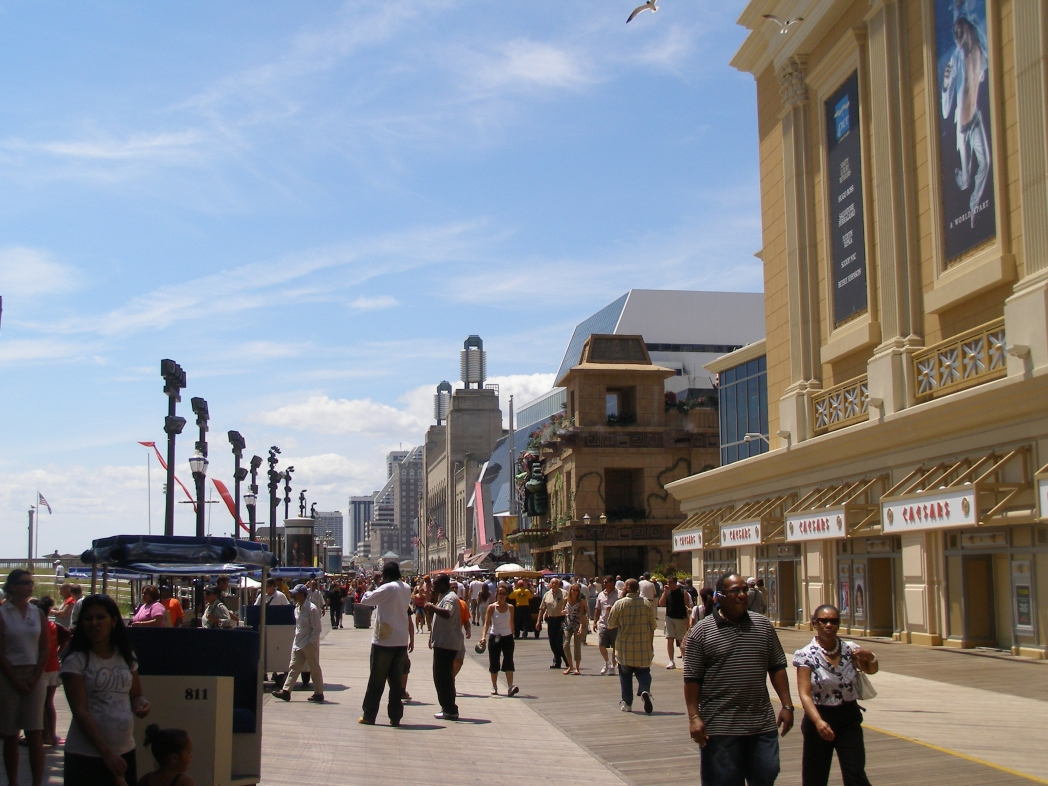 Caesars